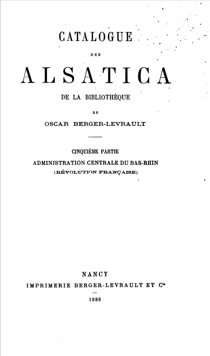 Catalogue des Alsatica de la Bibliothéque de Oscar Berger-Levrault, Nancy, 1886. A title page.